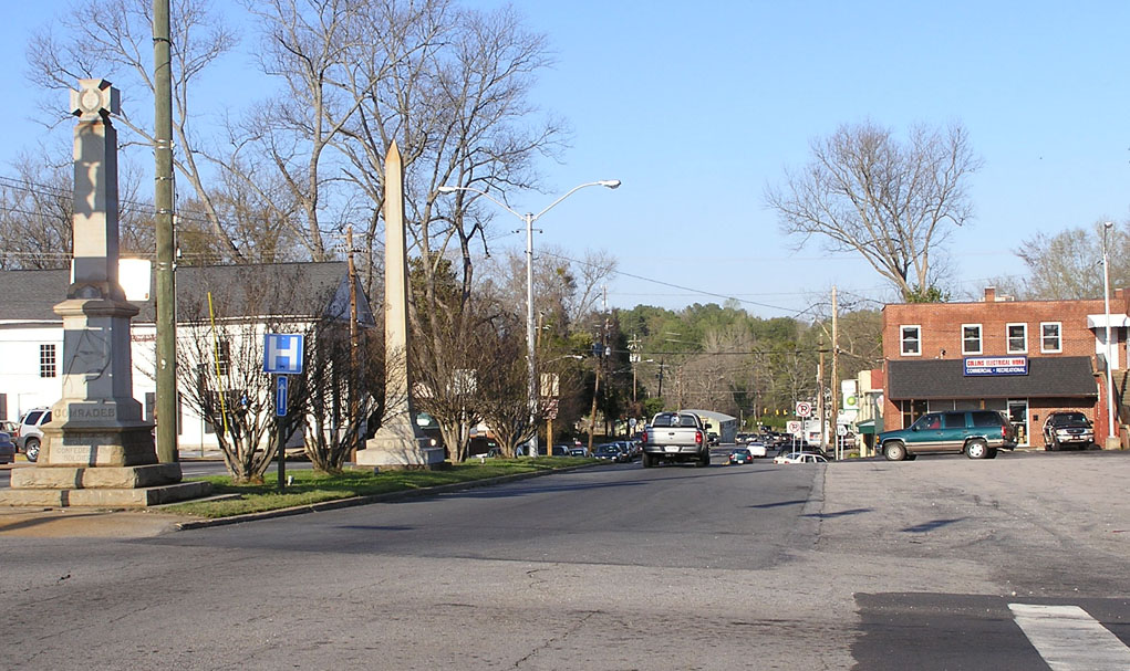 Photograph number three of a four photo sequence showing the downtown square of Jefferson. Photo taken by Richard Chambers, afternoon of March 16, 2007. Image resized by 50% and slightly cropped. This photo shows the Confederate Memorial in the median commemorating the American Civil War and the Crawford Long Museum can be seen in the background to the left. This highway connects Jefferson with Commerce.